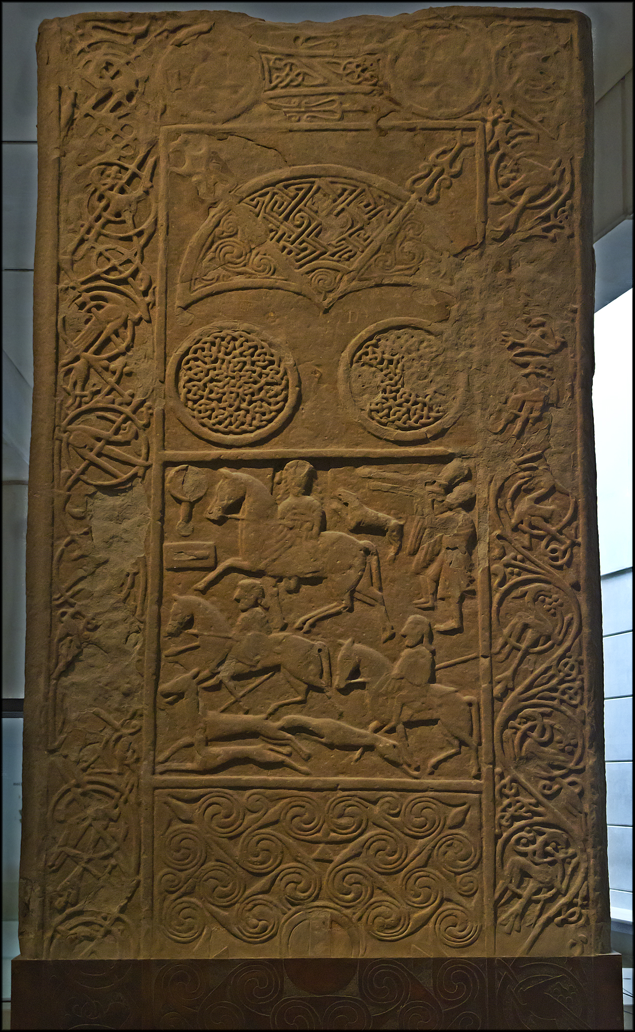 The Hilton of Cadboll stone, from the village of that name in Ross and Cromarty. Carved about 800AD from a sandstone block about 7' 6" (2.3m) high. At the National Museum of Scotland.